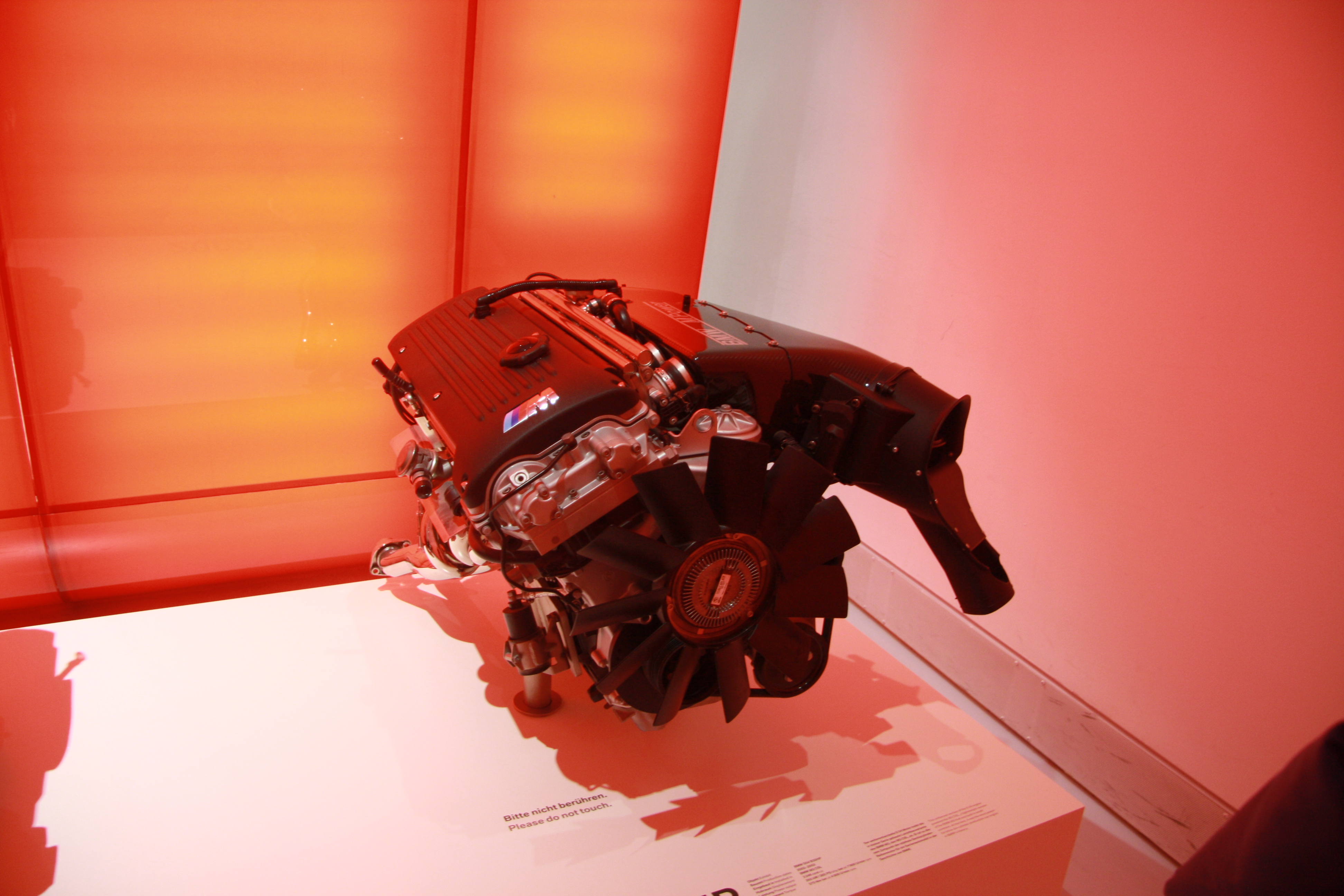 BMW S54 B32HP engine in BMW-Museum in Munich, Bayern.